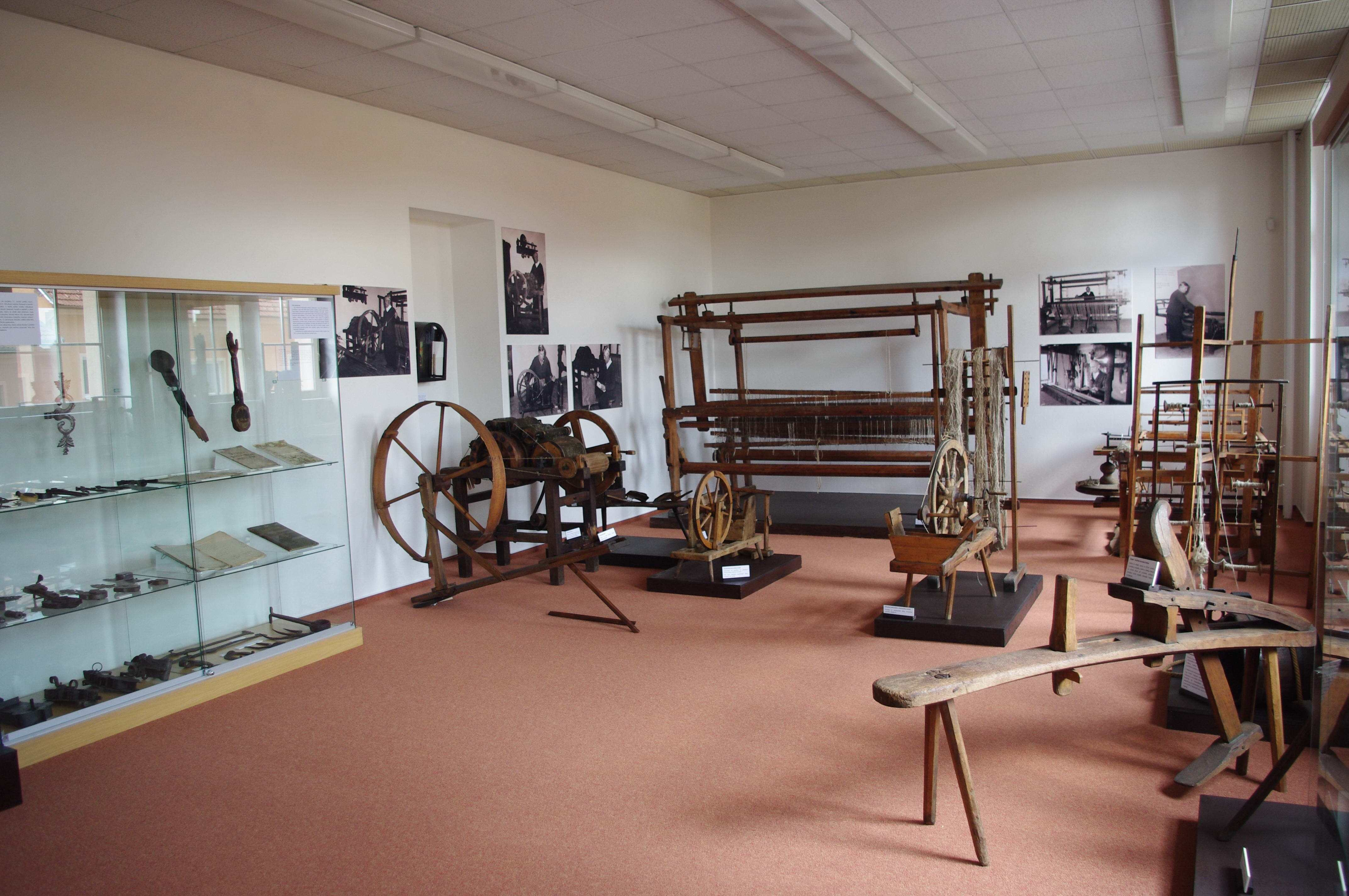 Expozice řemesel v Muzeu Bojkovska